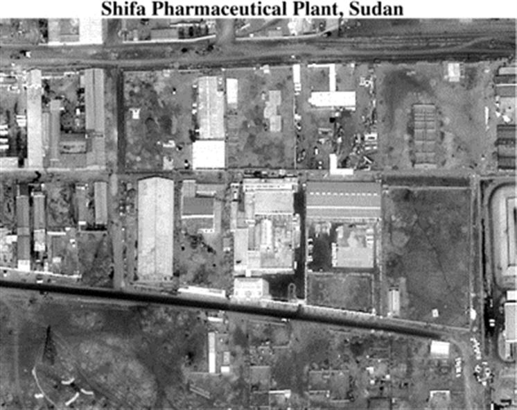 1998 US Government photograph shows a suspected bioweapons production facility in Shifa, Sudan that the U.S. destroyed in the wake of terrorist bombings of the American embassies in Kenya and Tanzania that year.